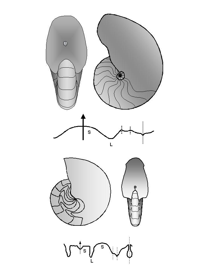 suture patterns of recent the nautilids Nautilus (top) and Aturia (bottom)